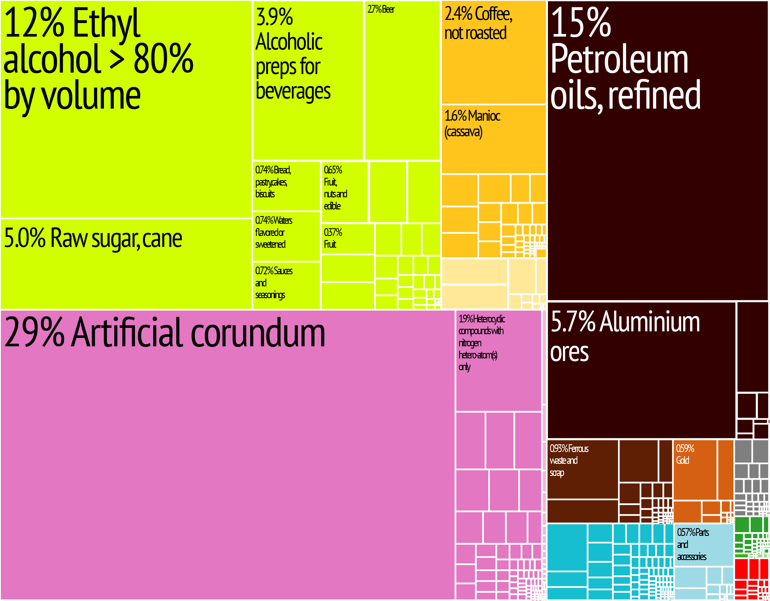 Jamaica Export Treemap from MIT Harvard Economic Complexity Observatory